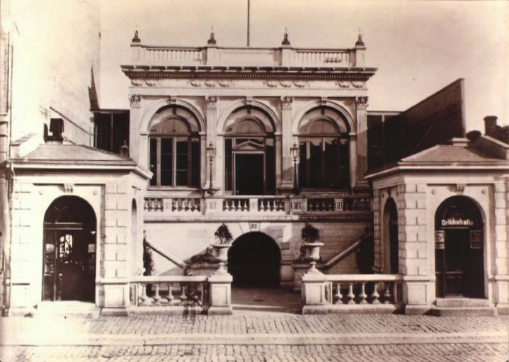 Kjøbenhavns Akvarium at Vesterbrogade 33, designed 1872 by Theodor Stuckenberg, rebuilt 1875 by Christian L. Thuren. Demolished 1877.